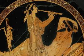 hetaria